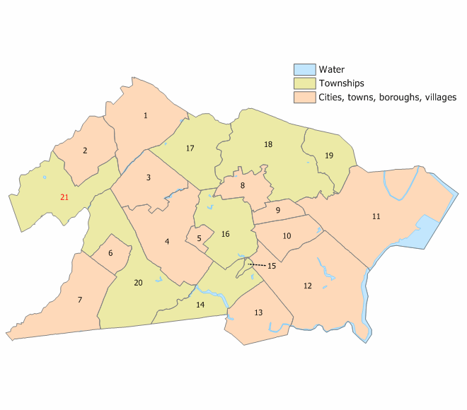 Union County, New Jersey Municipalities. See also lineage of index maps.